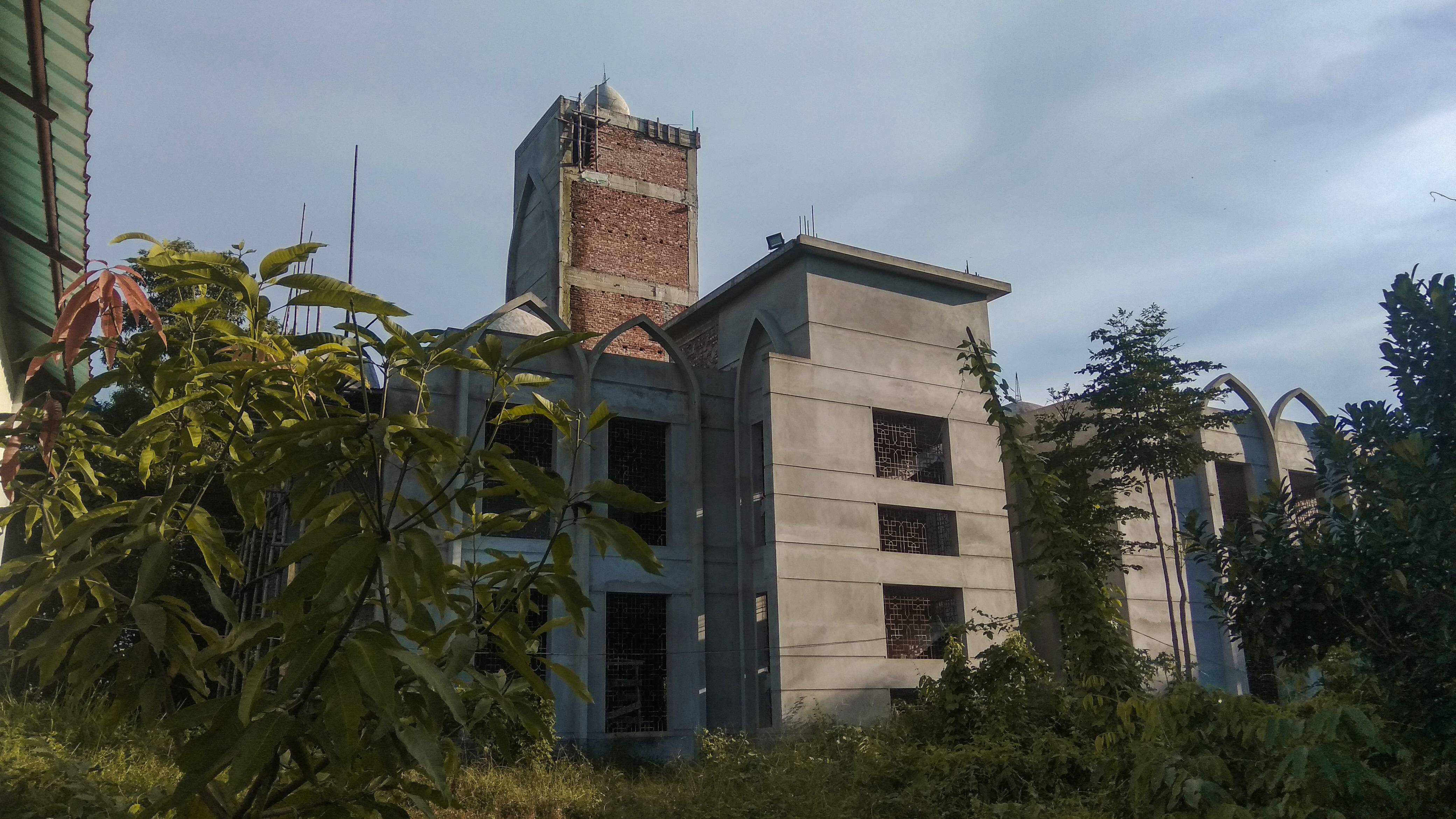 This is an image of CVASU farm based campus, Hathazari.